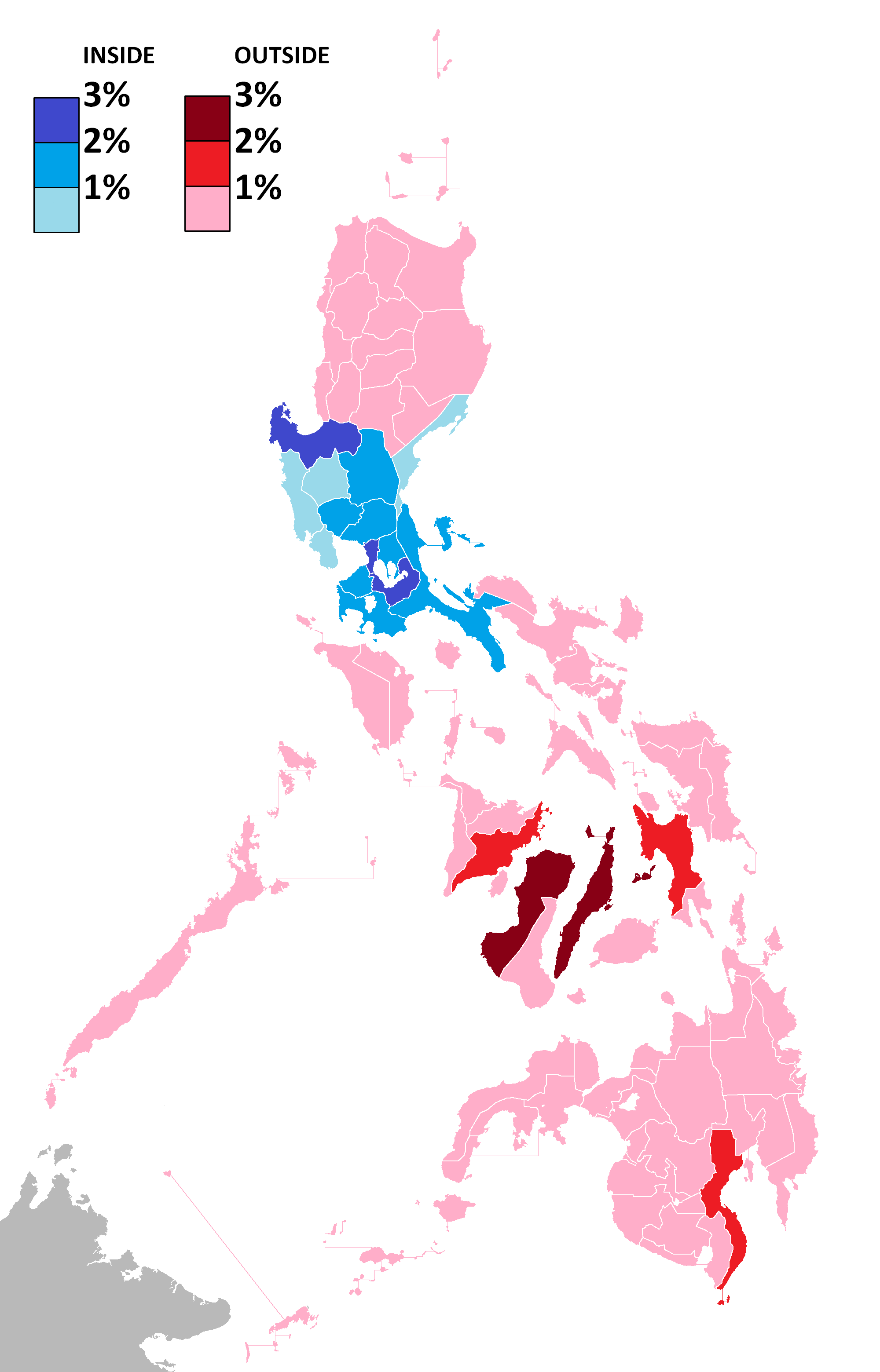 Provinces of the Philippines by percentage of voting population as of 2010, with those within the Lingayen-Lucena corridor in blue shades, and those outside of it in red shades. Tagalog: Mga lalawigan sa Pilipinas sa sanggayon sa bawa't sangdaan ng mga maaring bumoto noong 2010; ang mga kasali sa Lingayen-Lucena corridor ay nasa mga tinta ng mga kulay bughaw ay kabilang doon, habang ang mga nasa tinta ng kulay pula ay hindi kasali.